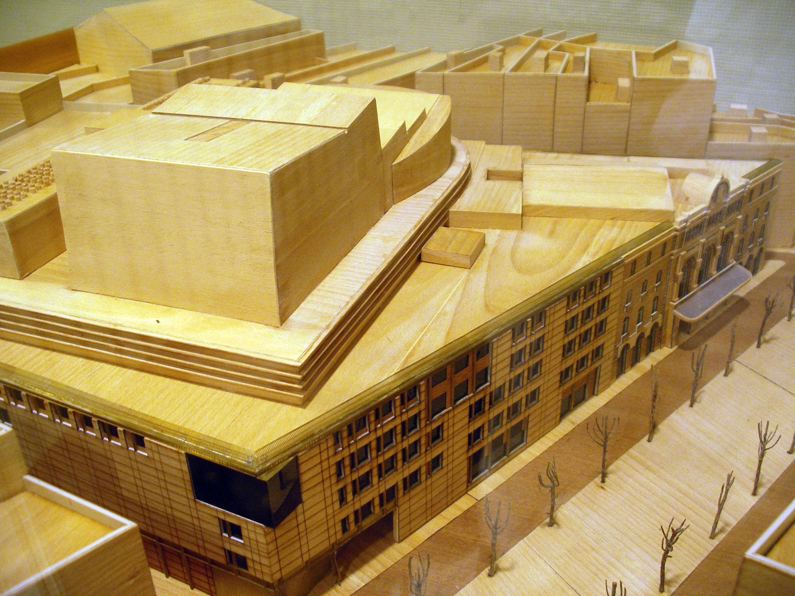 Wood model of the present Gran Teatre del Liceu, with the façade to Rambla; it is at the Liceu foyer.